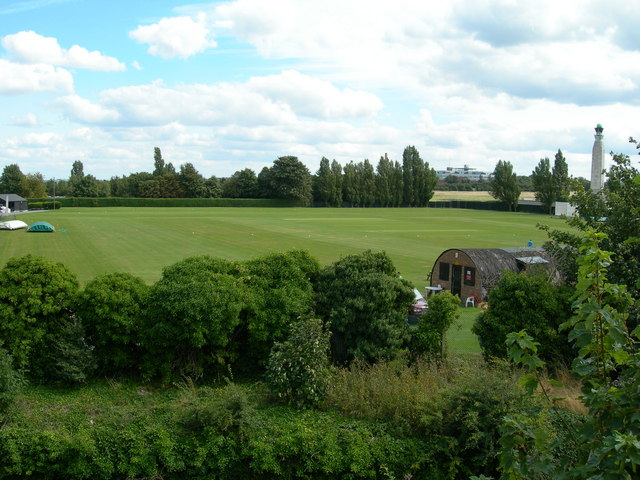 Royal Engineers Cricket Ground Viewed from the unrestored part of Fort Amherst.